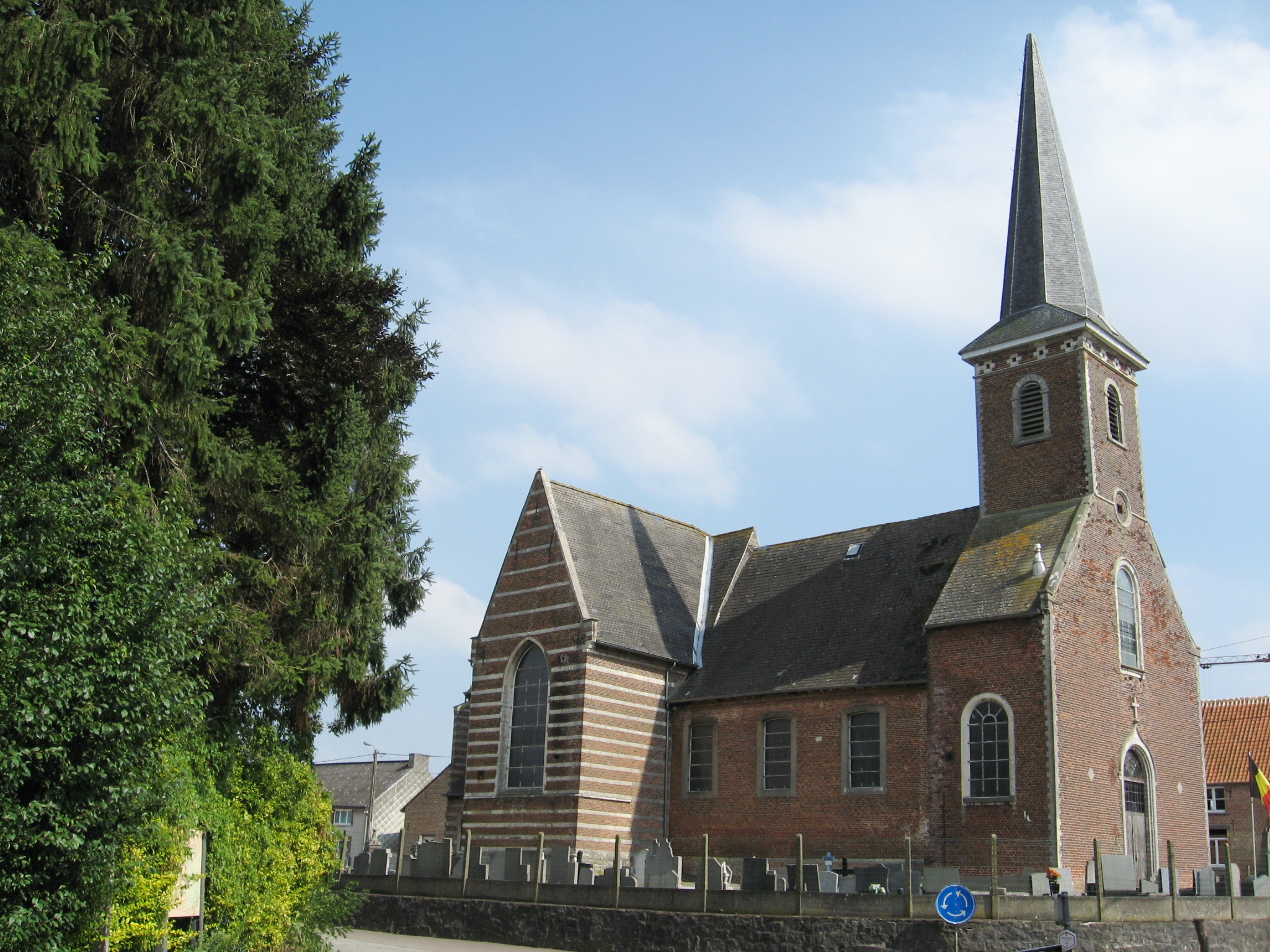 Church of Saint Quirinus in Wersbeek, Molenbeek-Wersbeek, Bekkevoort, Flemish Brabant, Belgium